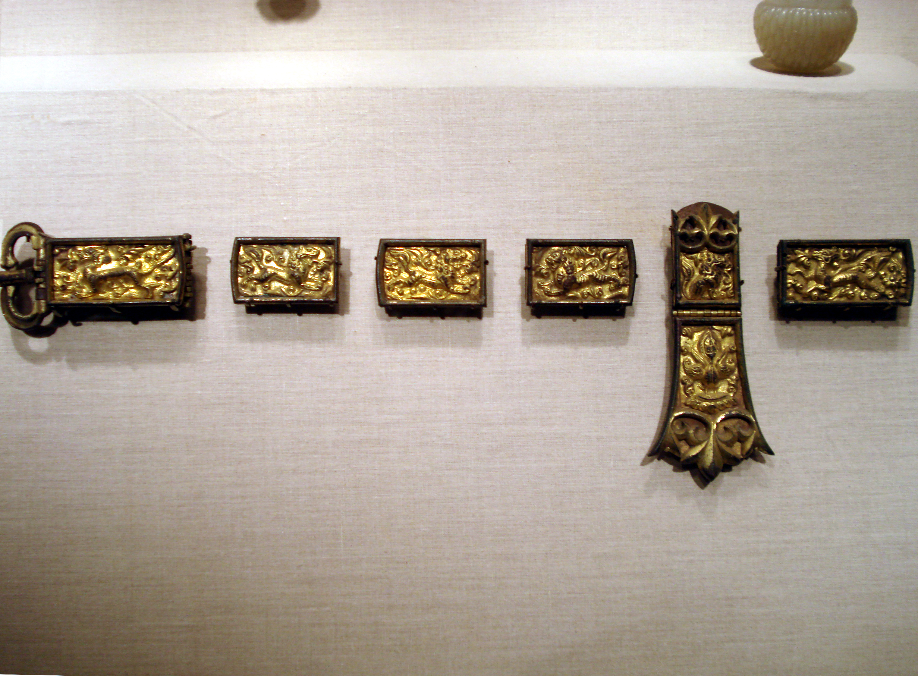 A Chinese gilt bronze and copper belt buckle and belt ornaments, from the Sui Dynasty (581–618), dated to the 6th century.